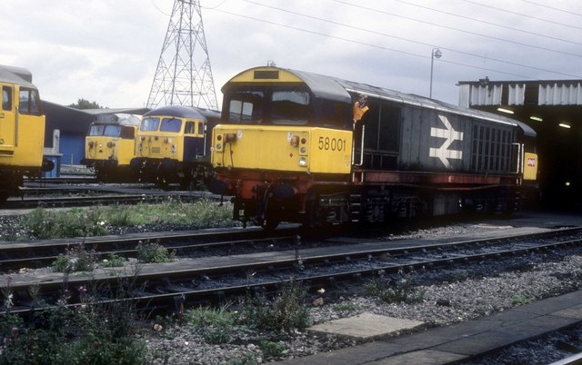 Saltley depot outside the shed, near to Birmingham, Great Britain. Now closed as a Locomotive stabling and servicing depot this view shows a number of locomotives outside the fuel shed. Saltley was home to a large number of train crew who worked local passenger, long distance passenger as well as mail and freight trains from this Birmingham depot. It was a very busy location and one could find several locomotives waiting to be serviced at this depot. New Street Station was not far and many trains changed locos here or in the case of freight traffic at Washwood Heath near by. Home of the Saltley seagulls.